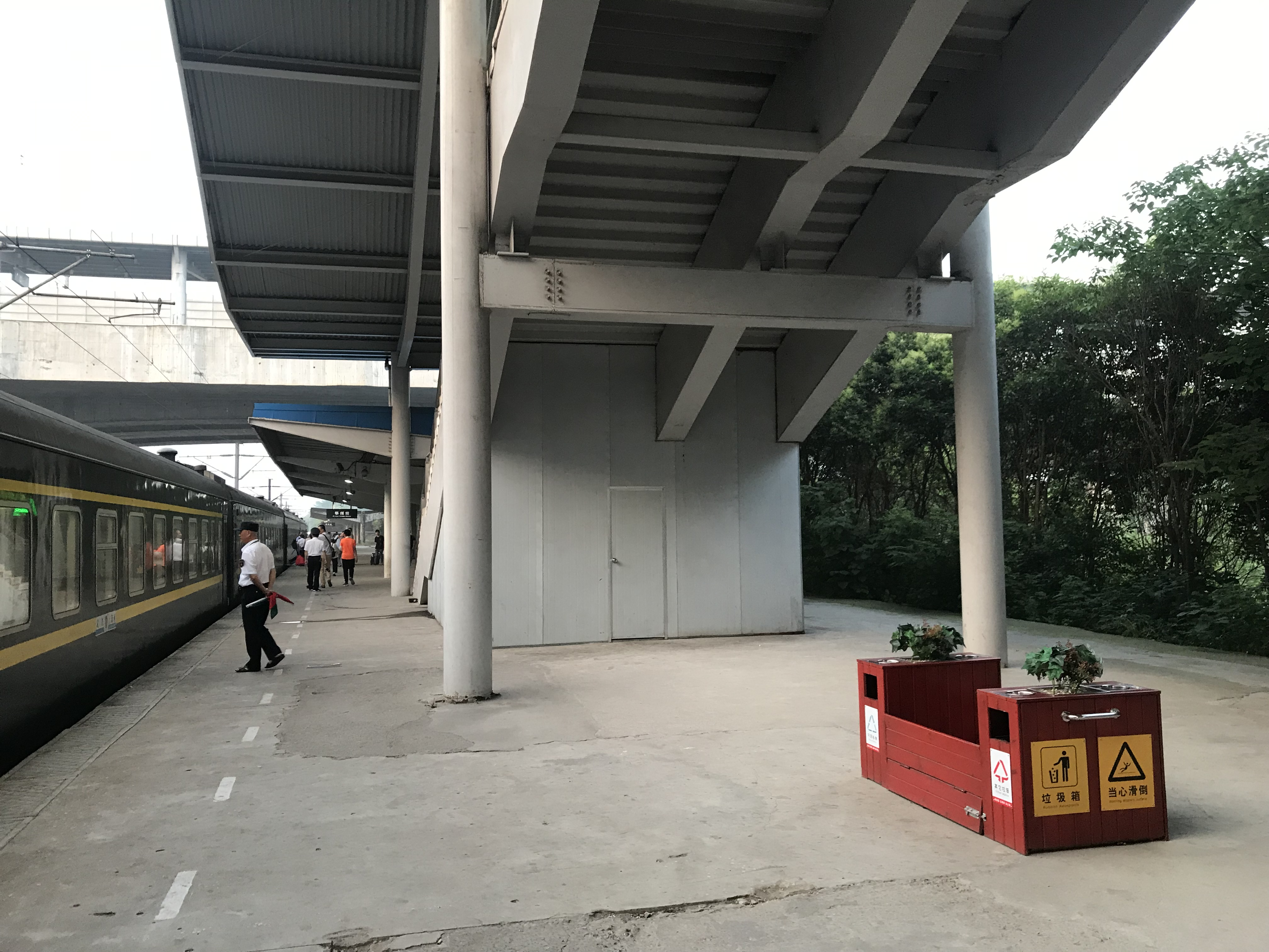 201906 Platforms of Ezhou Station2